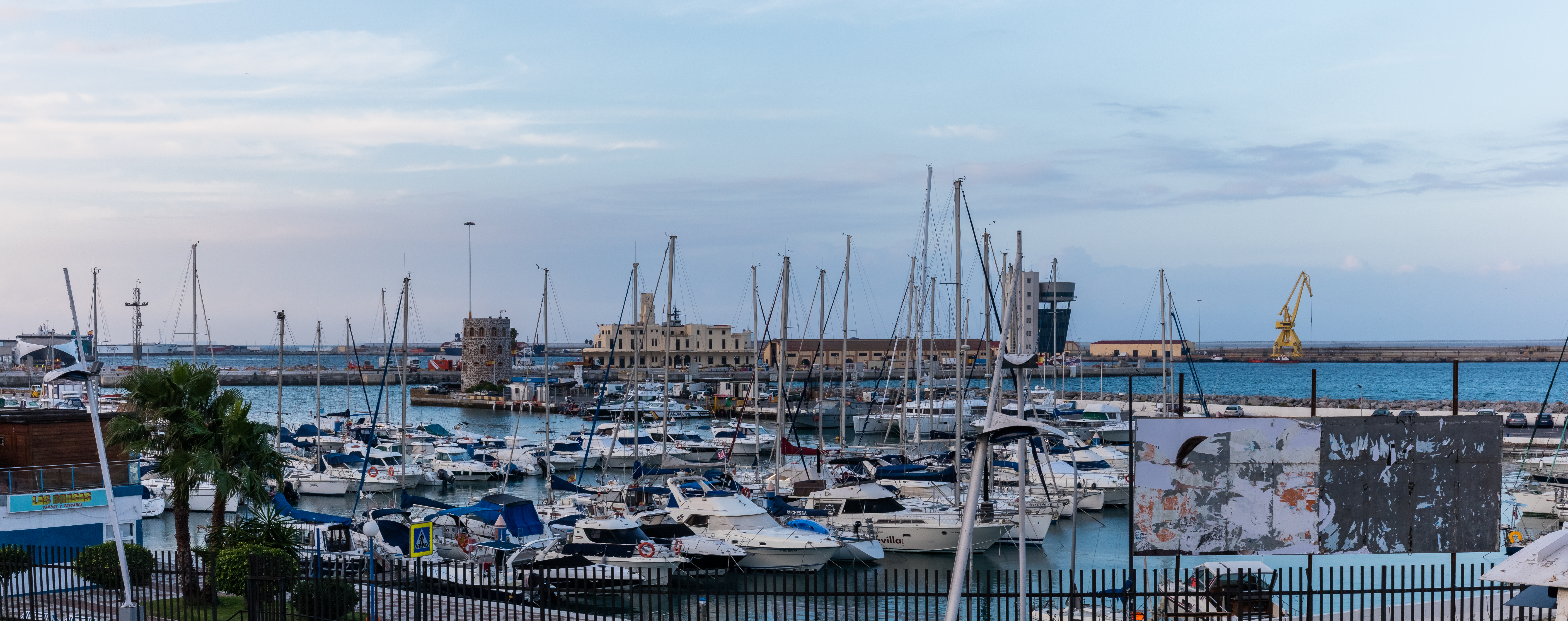 Port of Ceuta, Spain